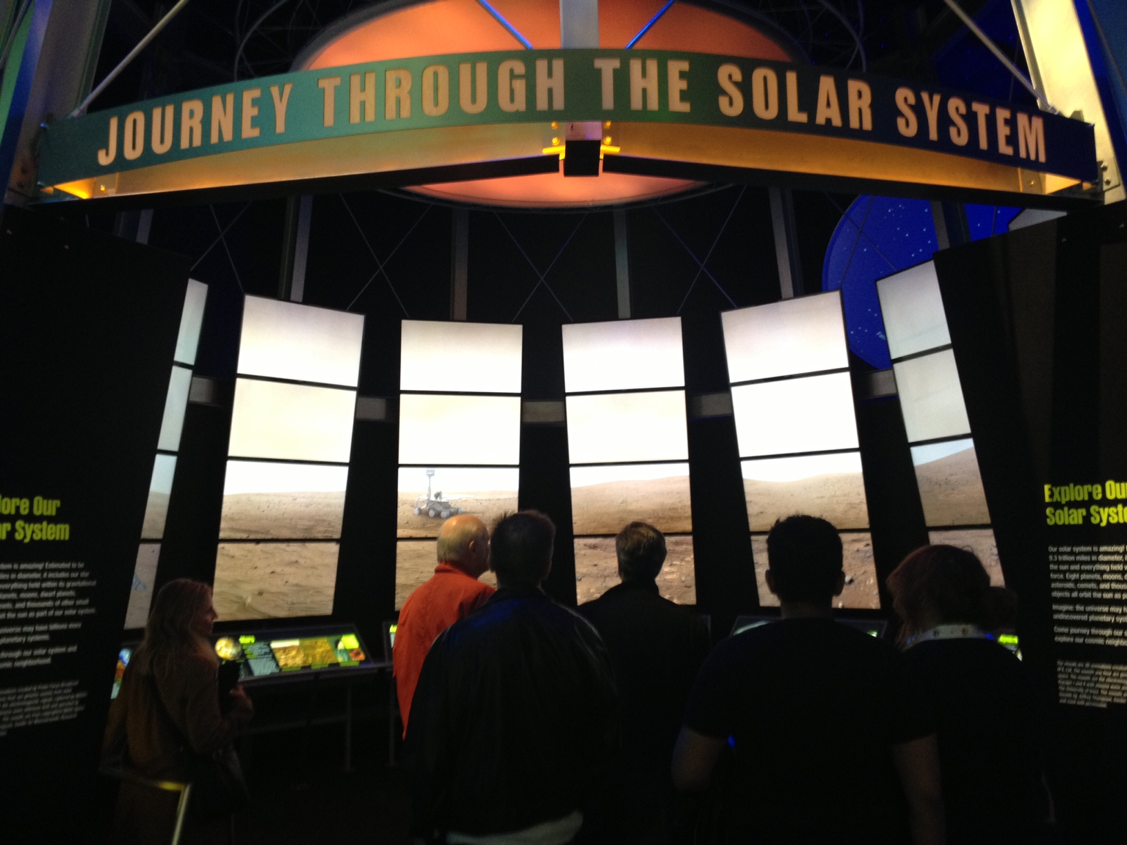 SolarSystemTour Expanding Universe Hall, Perot Museum of Nature and Science.